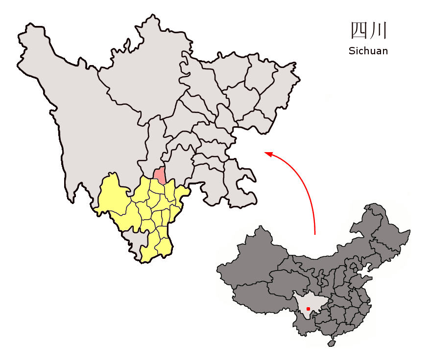 Location of Ganluo County (pink) and Liangshan Prefecture (yellow) within Sichuan province of China Map drawn in september 2007 using various sources, mainly : Sichuan province administrative regions GIS data: 1:1M, County level, 1990 Sichuan Counties map from